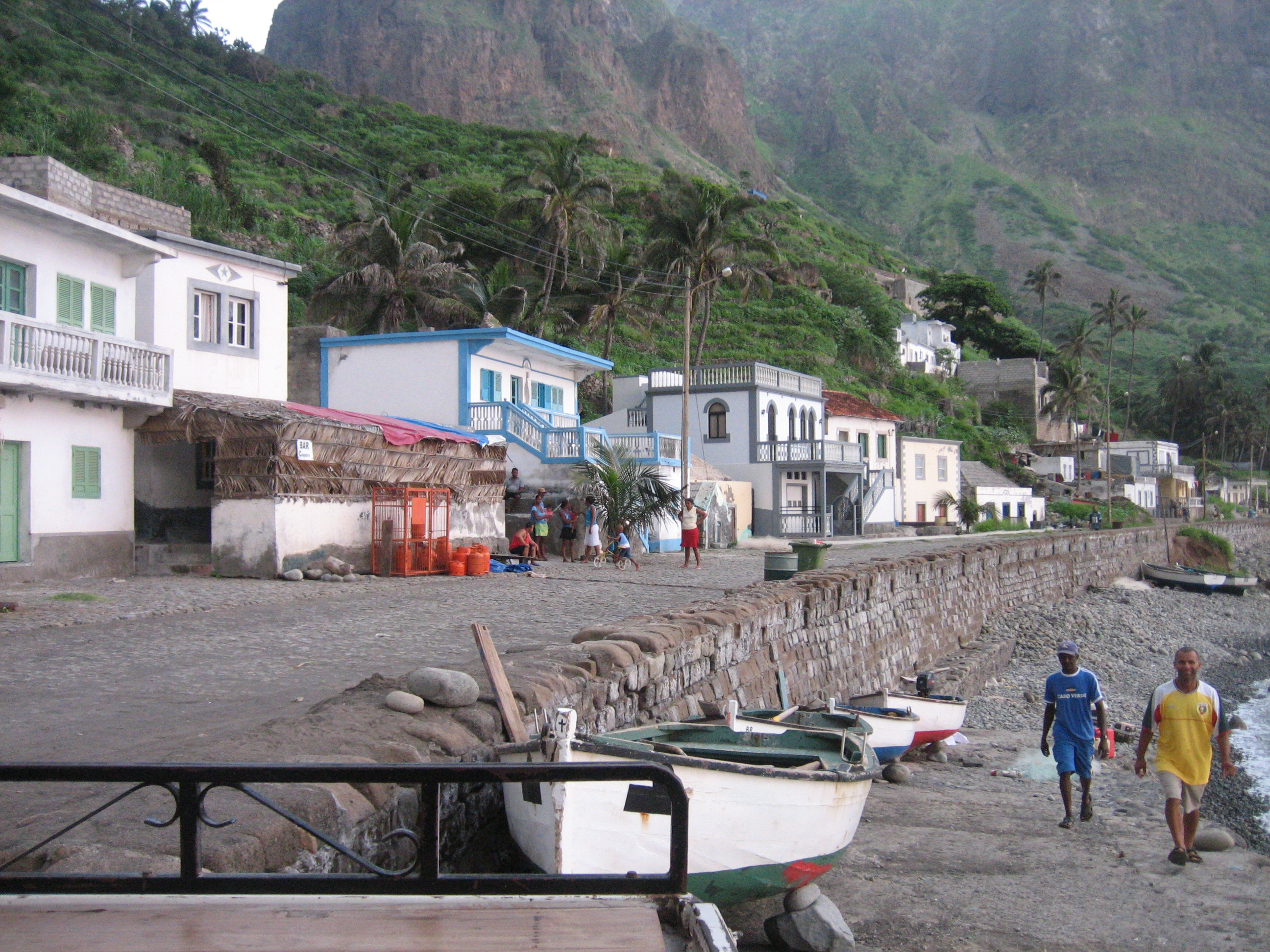 The village of Fajã de Água at the northwest coast of Brava in Cape Verde.